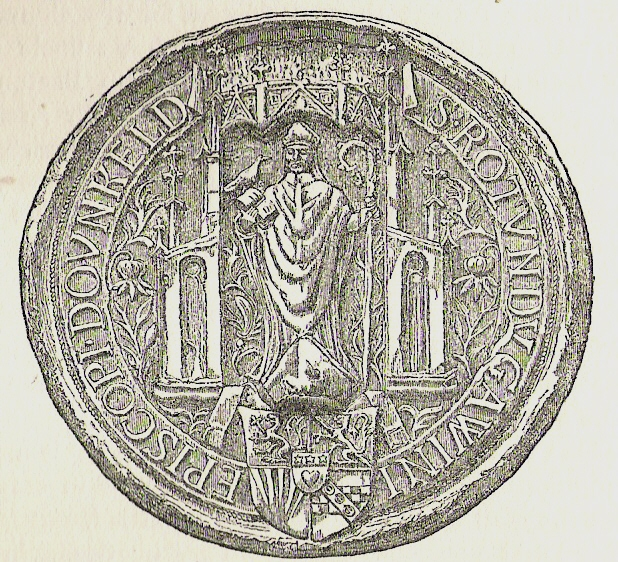 Seal of Gavin Douglas (1474-1522), Bishop of Dunkeld